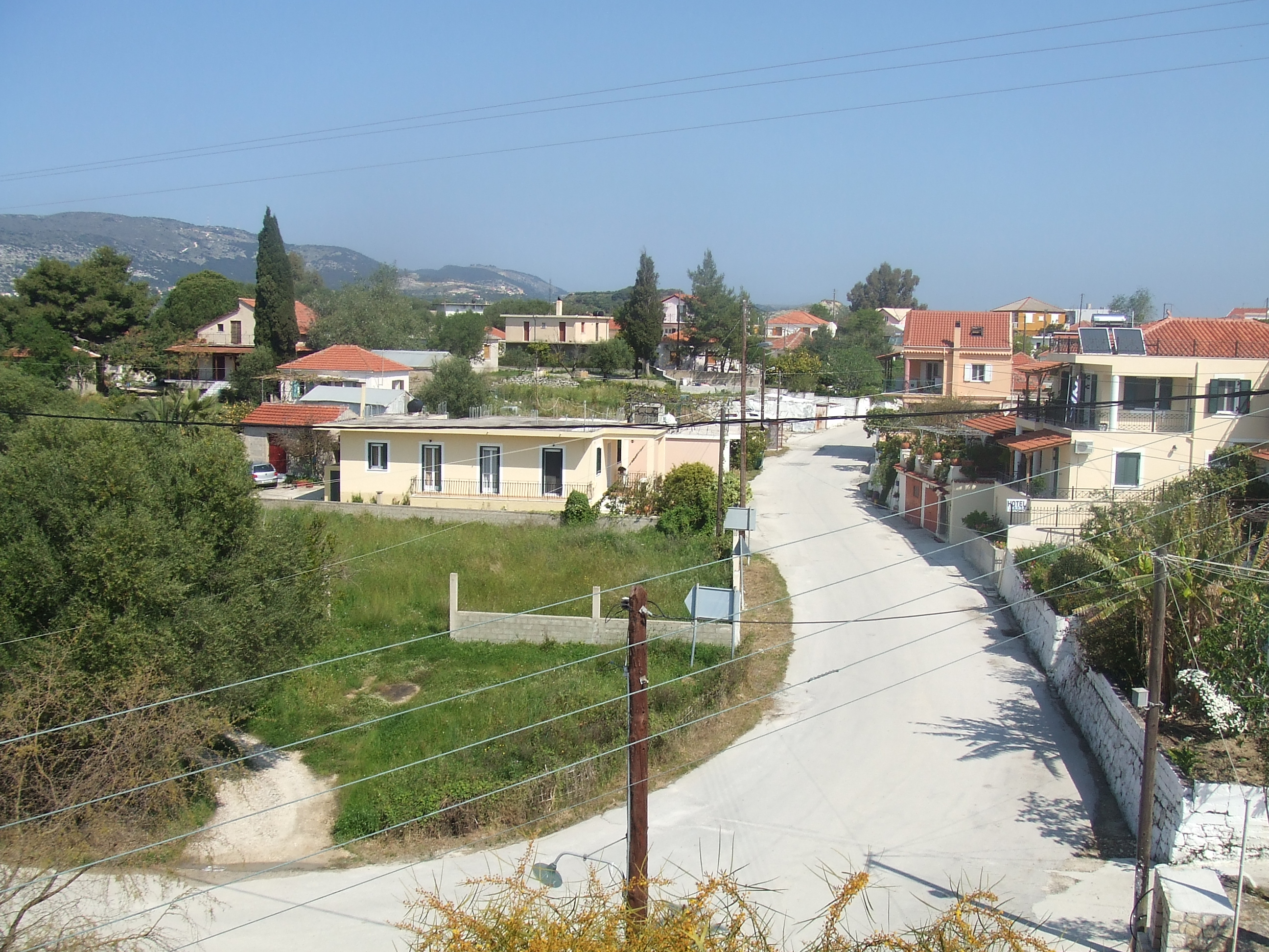 The village Mantzavinata, now part of the Lixouri municipality. View from Agia Sophia church.